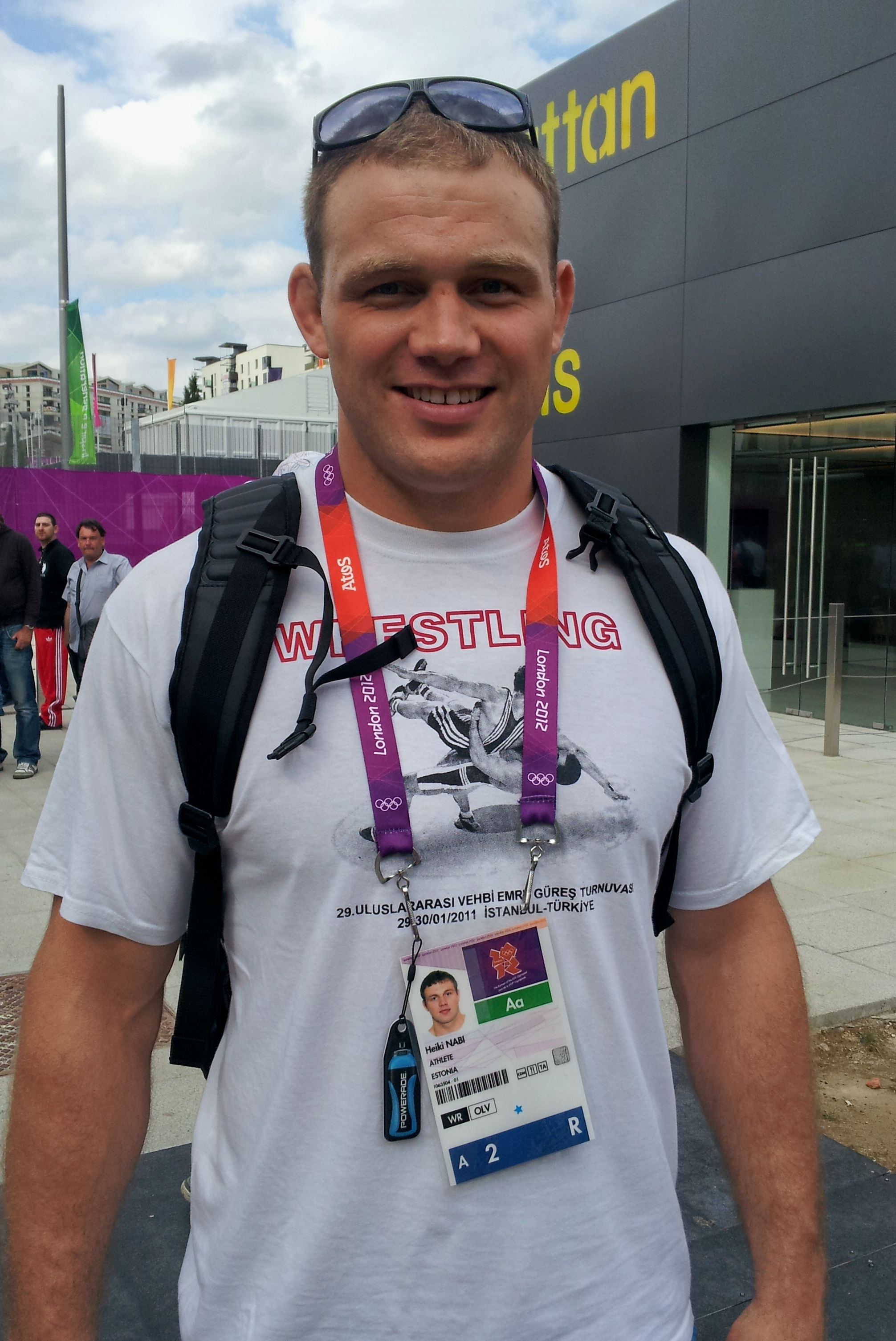 Estonian wrestler Heiki Nabi, taken at The London 2012 Summer Olympic Games